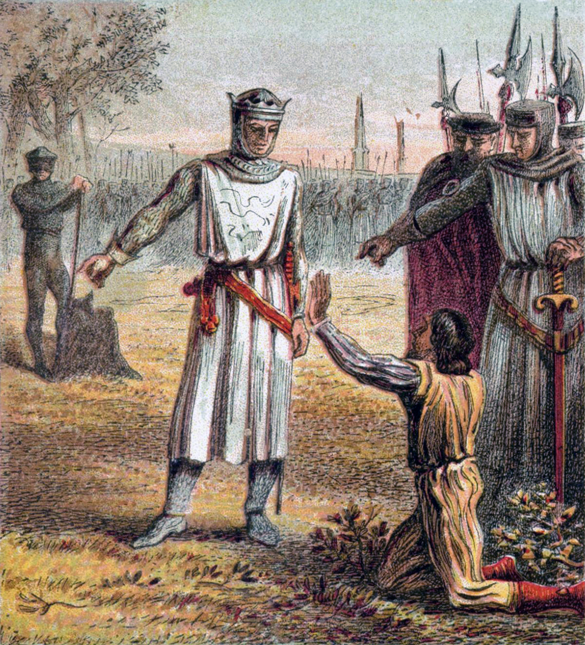 The pending execution of Piers Gaveston, 1st Earl of Cornwall